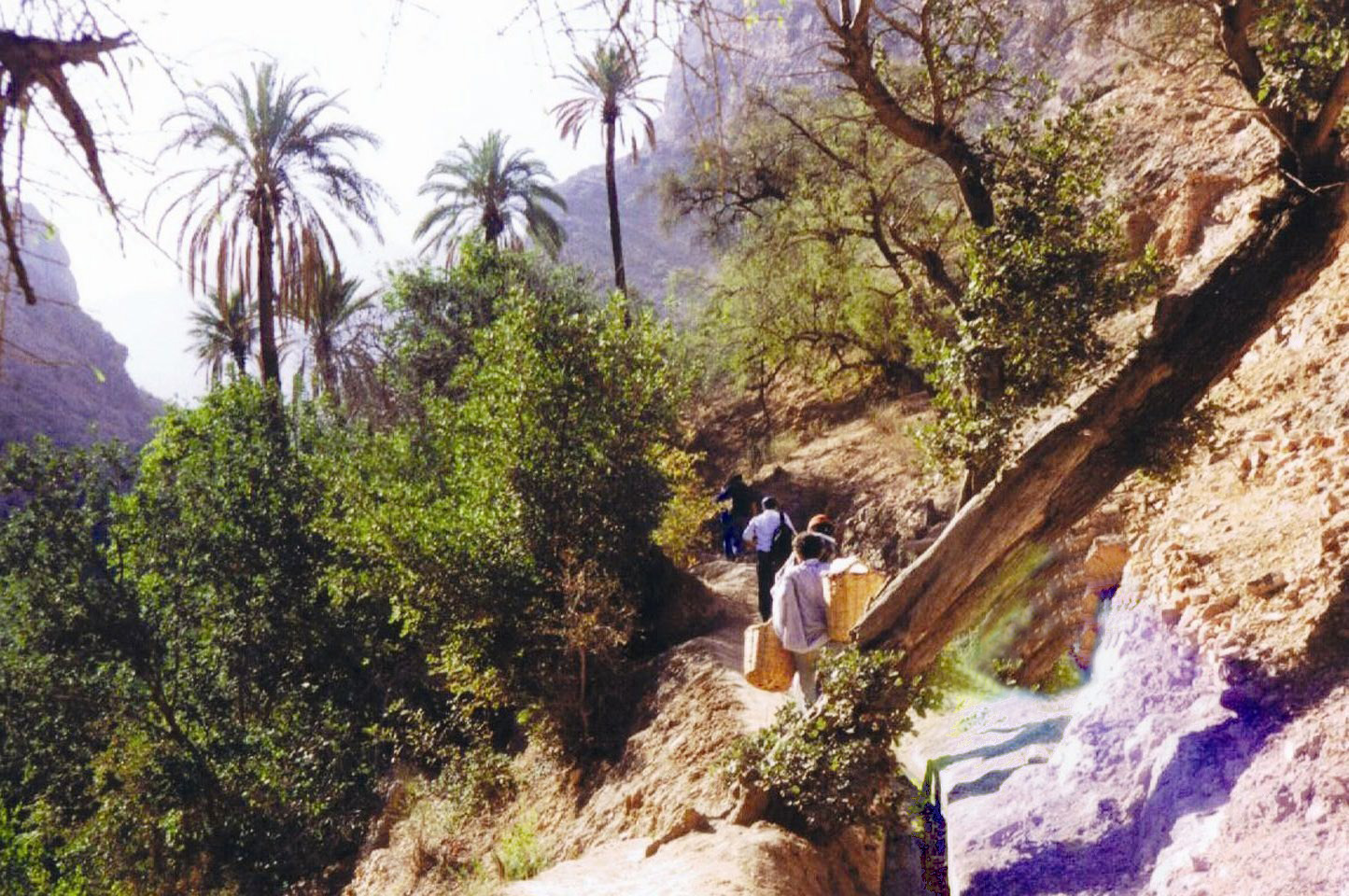 Assads, Anti Atlas, Souss, Morroco